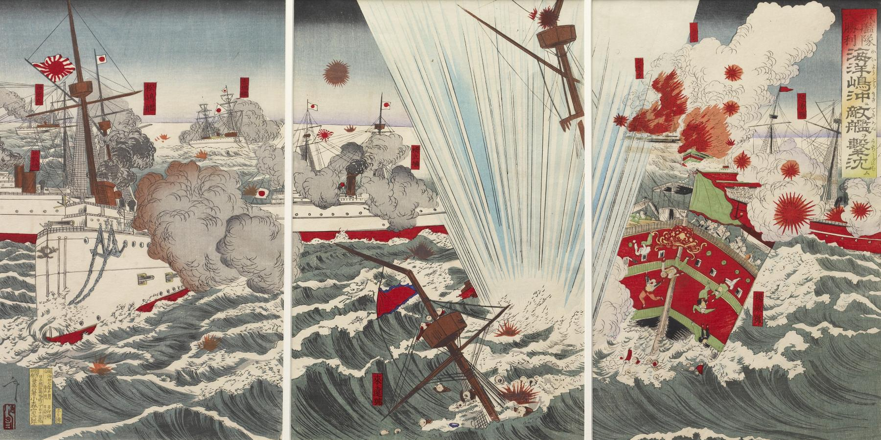 The First Sino-Japanese War (August 1, 1894 – April 17, 1895) was fought between China and Japan over control of Korea. The Battle of the Yellow Sea occurred on September 17, 1894, when Japanese warships encountered the larger Chinese northern squadron off Haiang Island. Led by the flagship "Matsushima" (at left), the Japanese fleet sunk the Chinese ship "Laiyüan" (in the foreground) and severely damaged the "Yangwei" (at right) and other ships. Each of the ships in this sequence of prints, which was intended for a popular Japanese audience, is labeled so that viewers could follow the action.